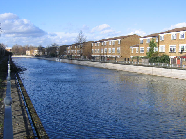 Pilkington Canal, Thamesmead Only the first few hundred metres remain at the Thames end of the Pilkington Canal, and its connection to the river has been severed by recent development. It remains as a water feature in the Thamesmead housing development.